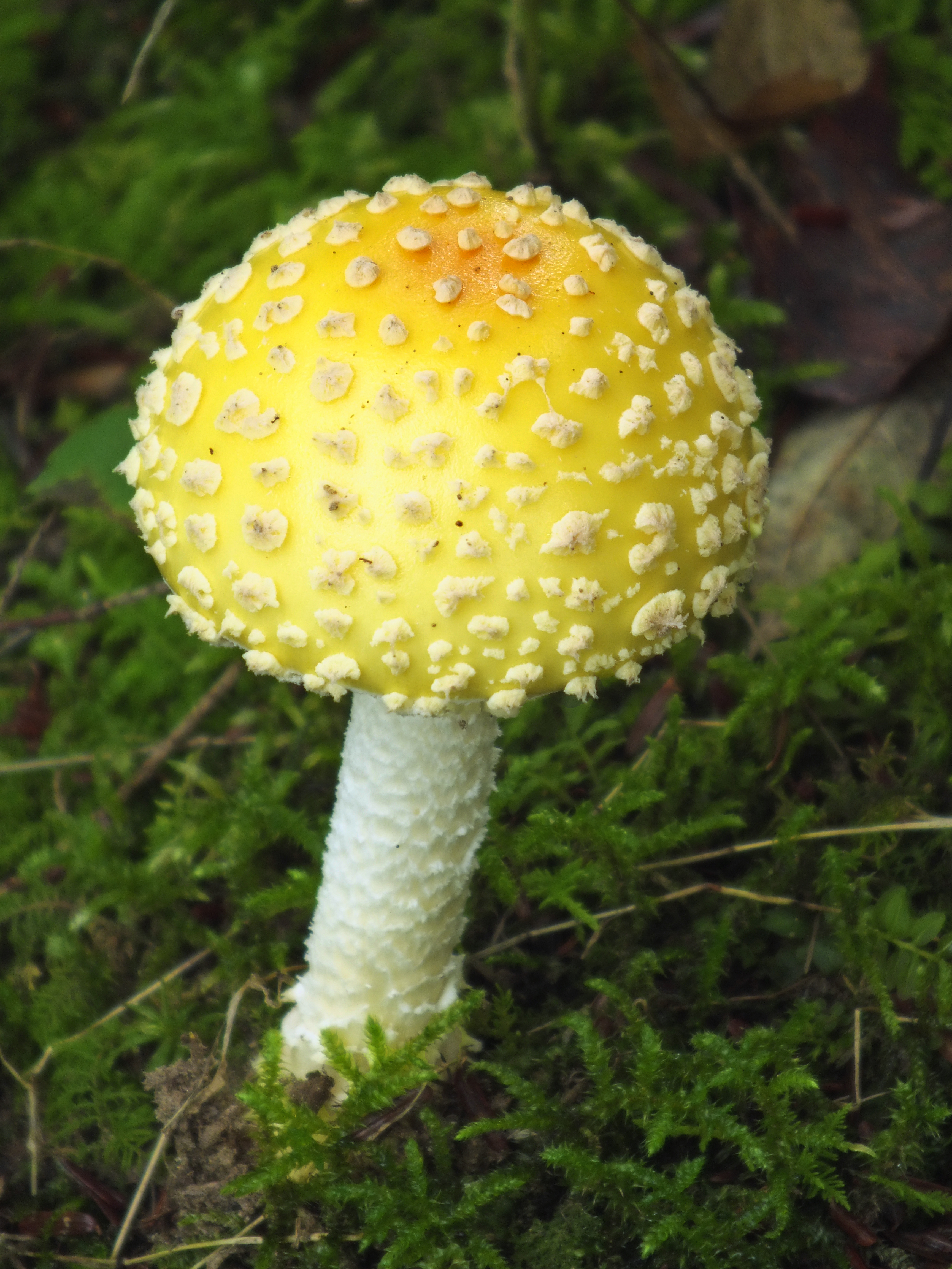 Eastern yellow fly agaric mushroom (Amanita muscaria var. guessowii), Clinton County–Potter County line, within the Forrest H. Dutlinger Natural Area of Susquehannock State Forest.